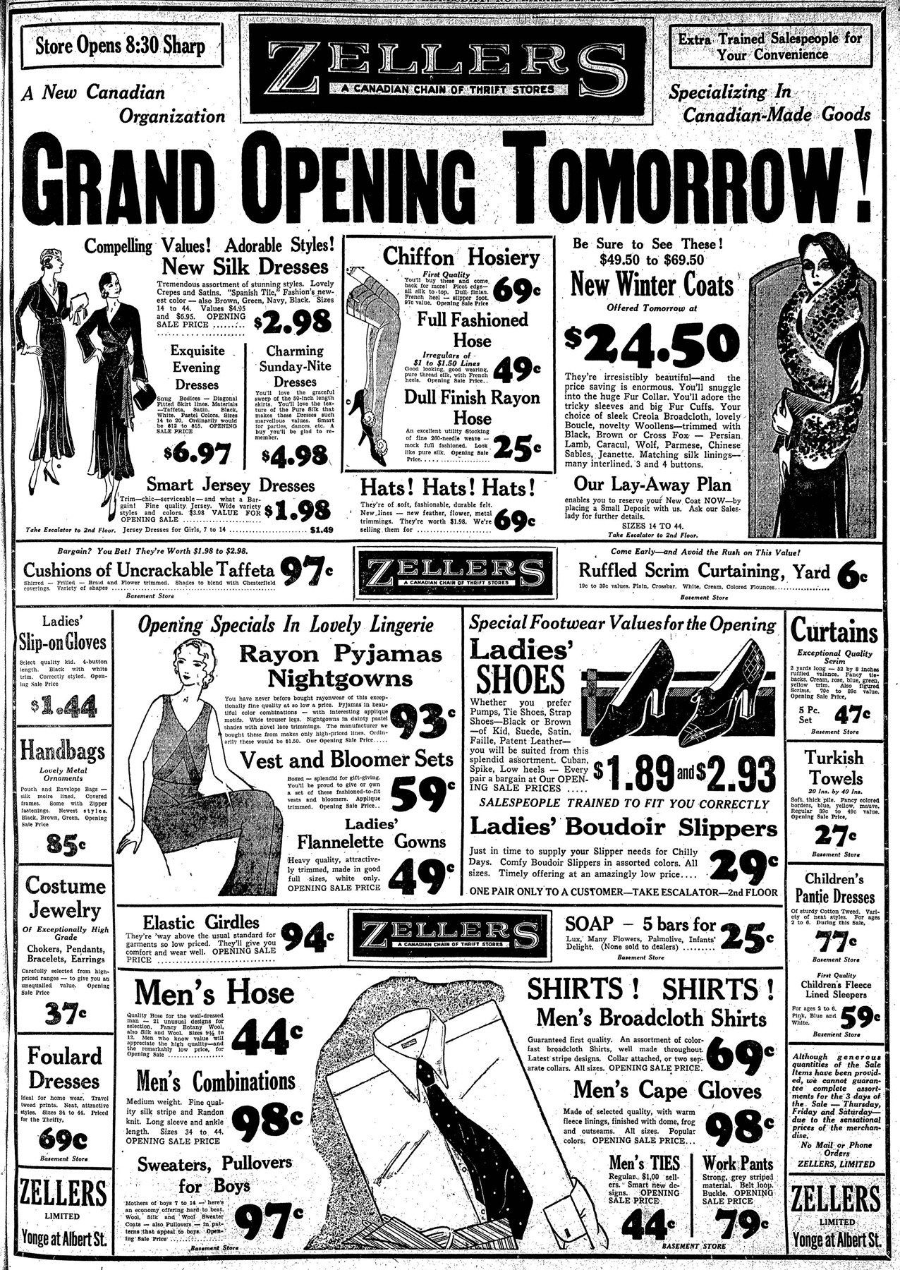 Torontoist post featuring this ad: Source: The Toronto Star, November 11, 1931